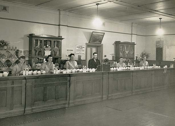 Taree Railway Refreshment Room - interior showing staff behind counter Dated: 12 July 1947 Digital ID: 17420_a014_a014000102 Rights: We'd love to hear from you if you use our photos. Many other photos in our collection are available to view and browse on our website using Photo Investigator.